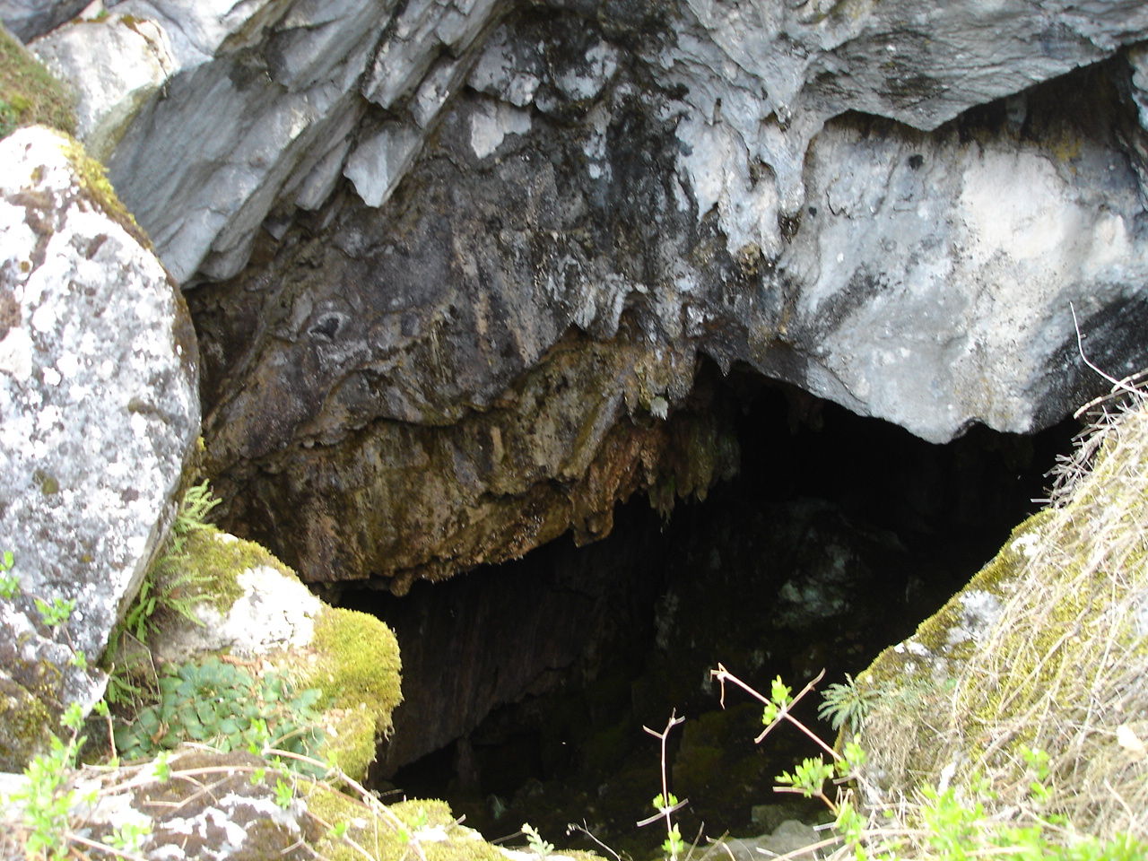 Bozgunova cave, near Patiška Reka, Macedonia